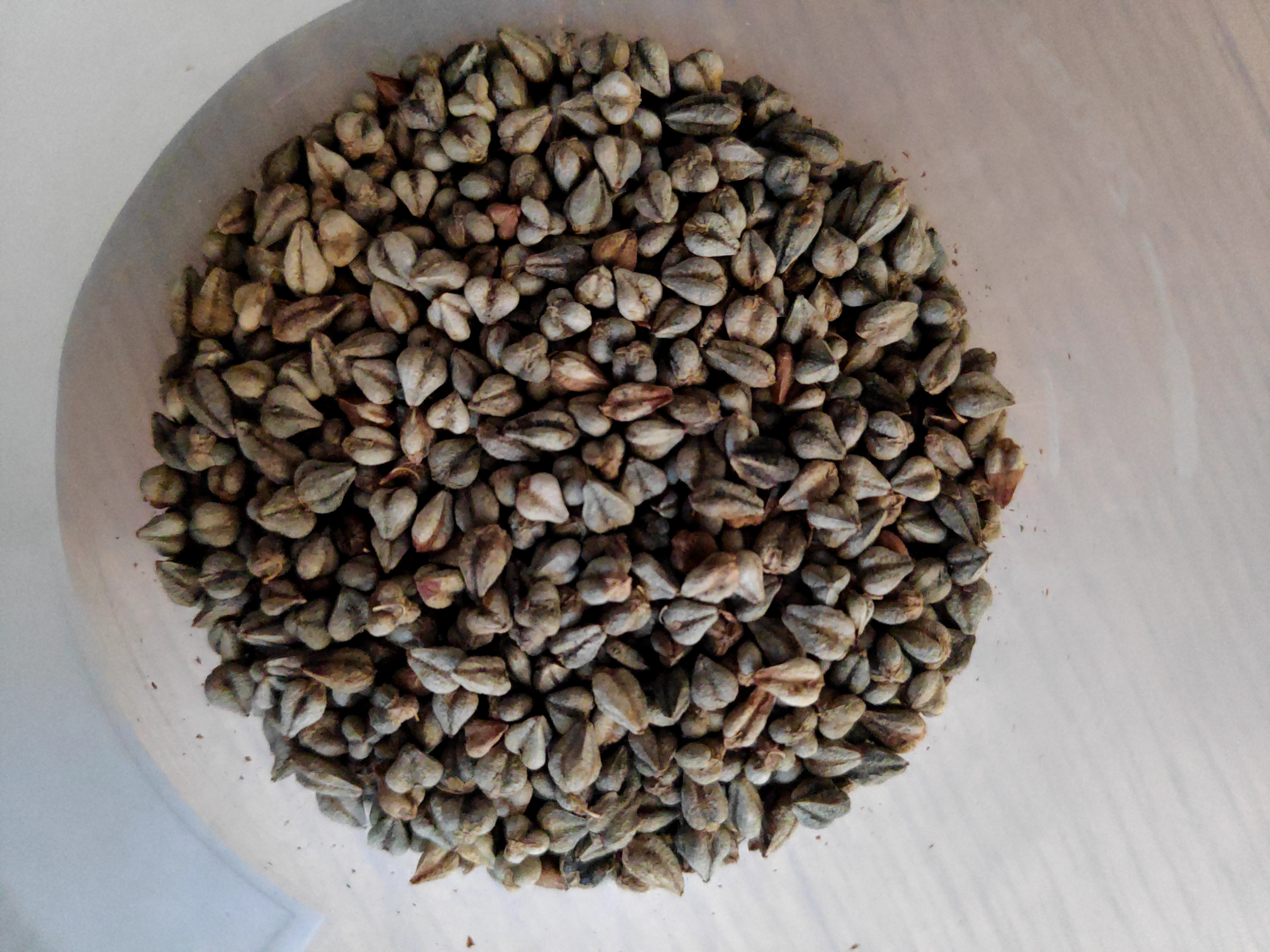 Fagopyrum tataricum, commonly know as bitter buckwheat.